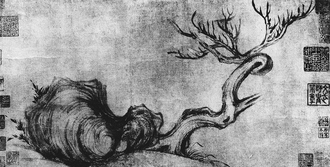 Source: Fu Xinian, ed., Zhongguo meishu quanji, Huihua bian 3: Liang Song huihua, shang (Beijing: Wenwu chubanshe, 1988), plate 25, p. 51. Album leaf, ink on paper; location unknown, no dimensions given.